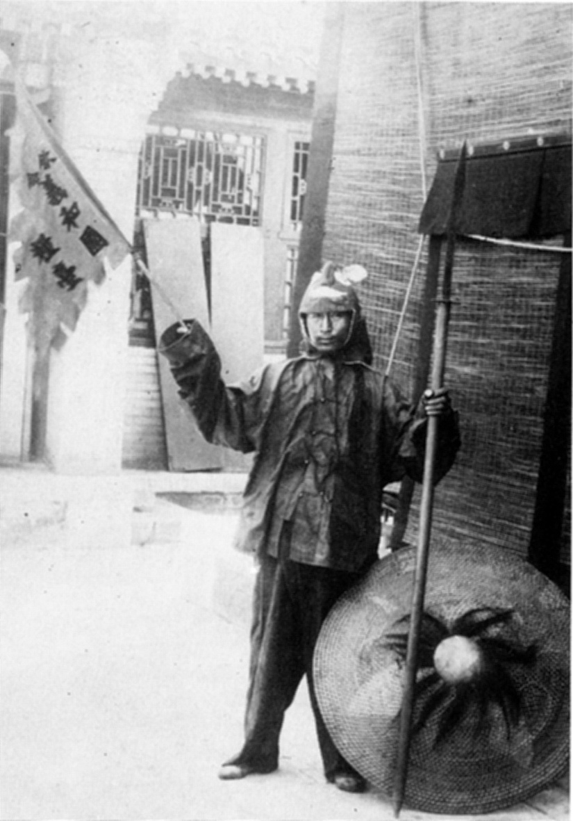 A Chinese "Boxer". The flag says, “欽令 義和團糧臺”